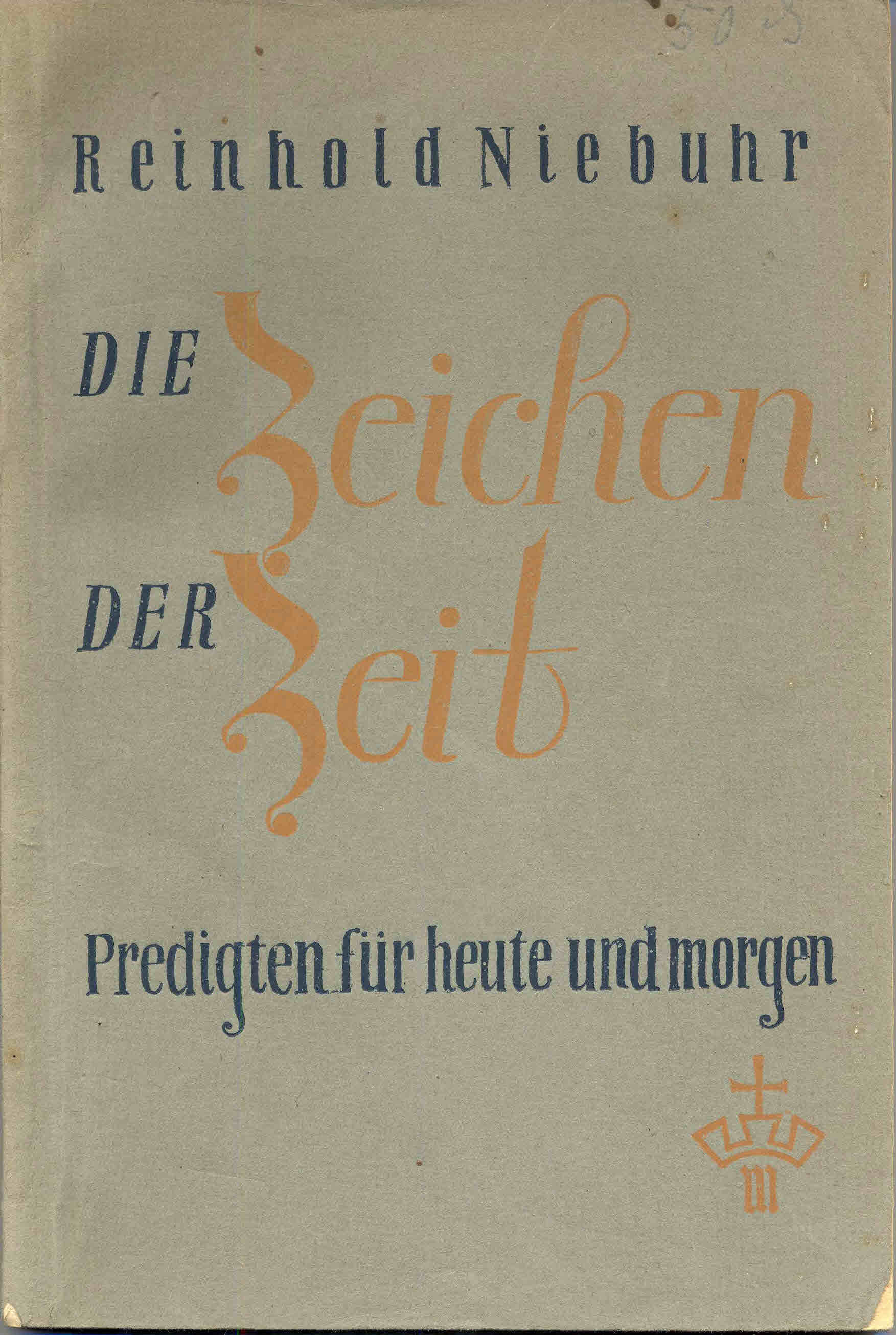 Cover of the German 1948 edition of Niebuhr's book "Discerning the Signs of the Times" (1946)